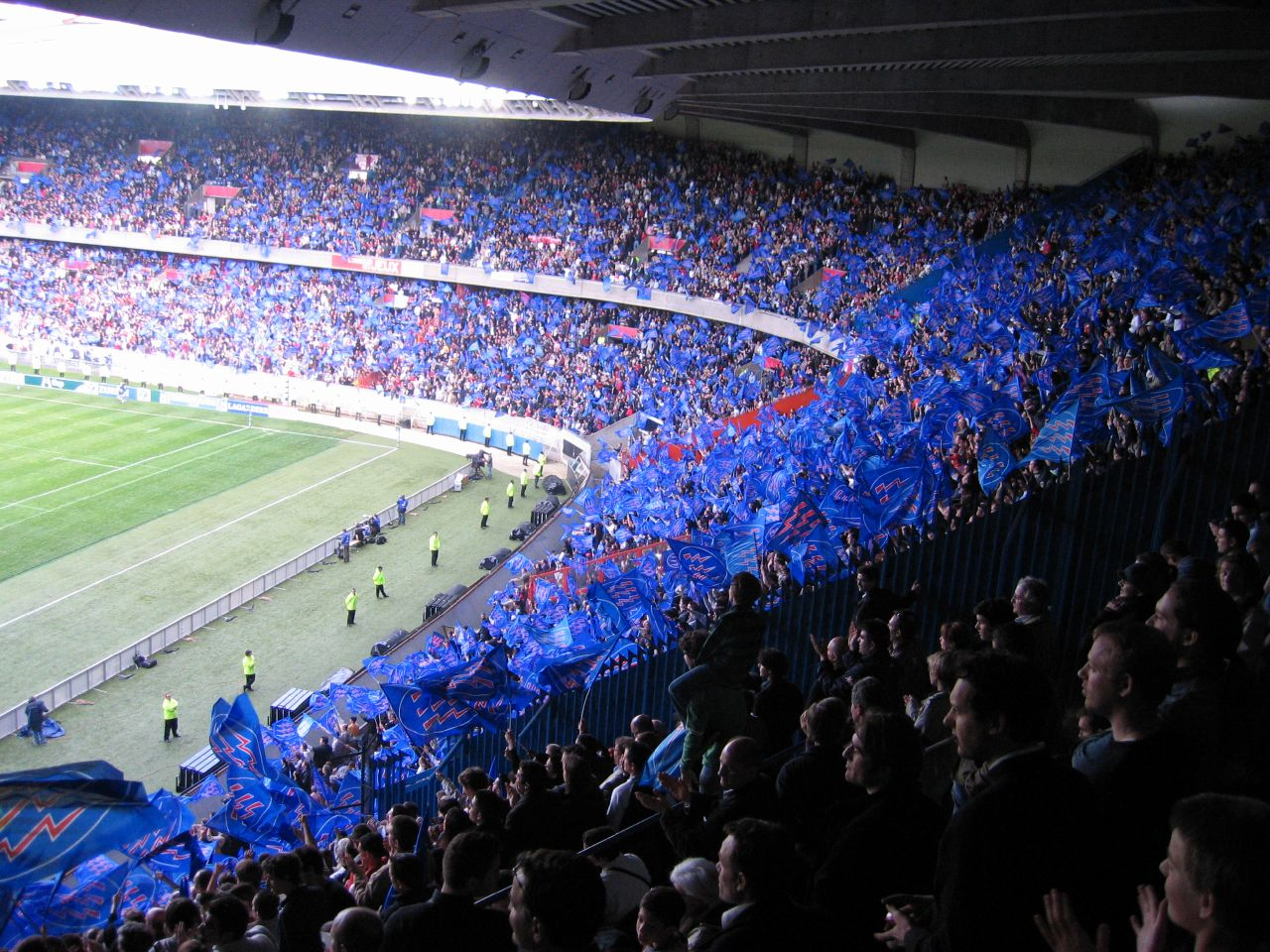 Rugby union match at Parc des Princes